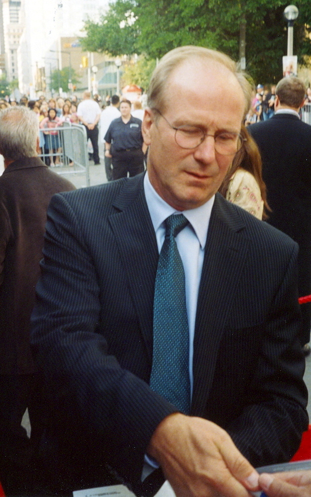 John Hurt at the premiere of History of Violence, Toronto Film Festival 2005